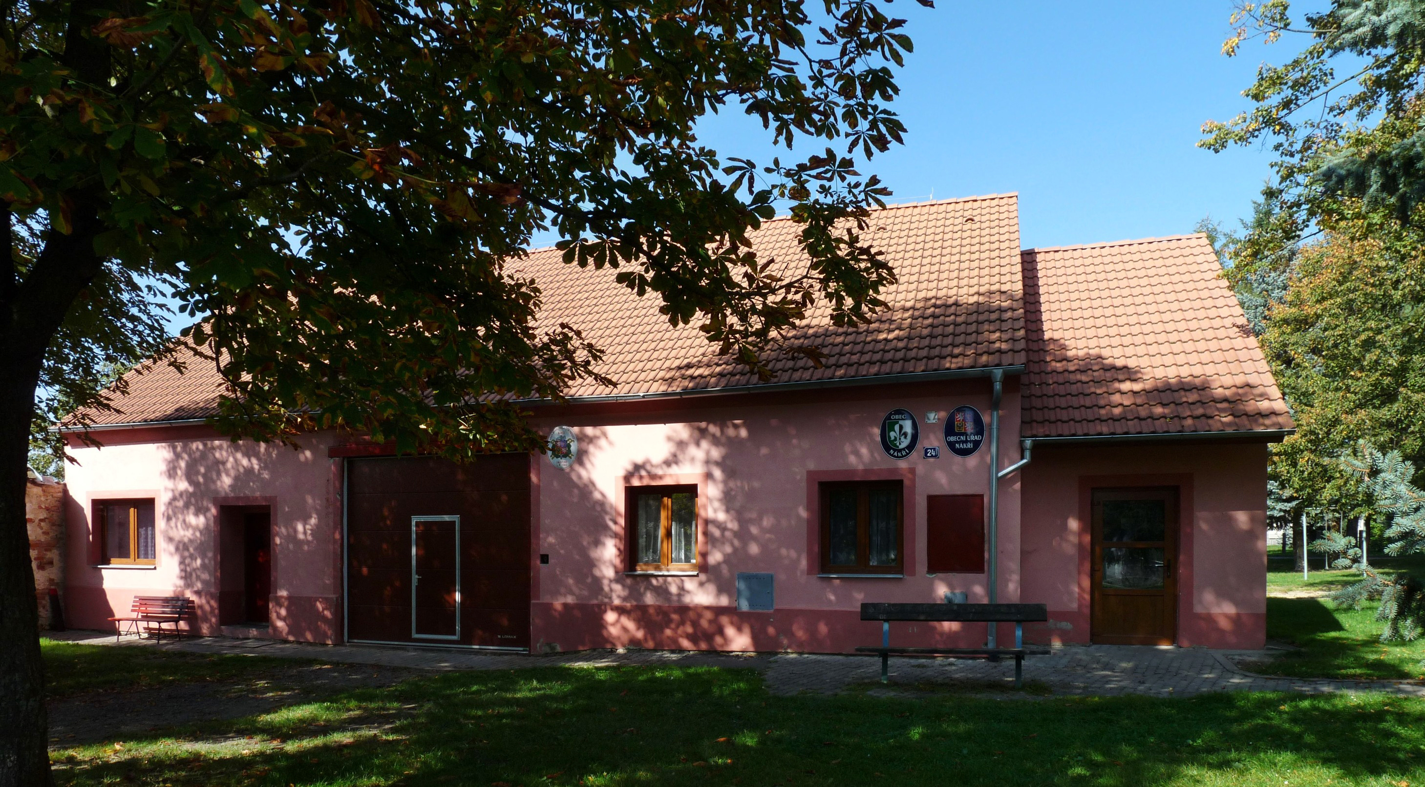 Municipal office building in the village of Nákří, České Budějovice District, South Bohemian Region, Czech Republic.